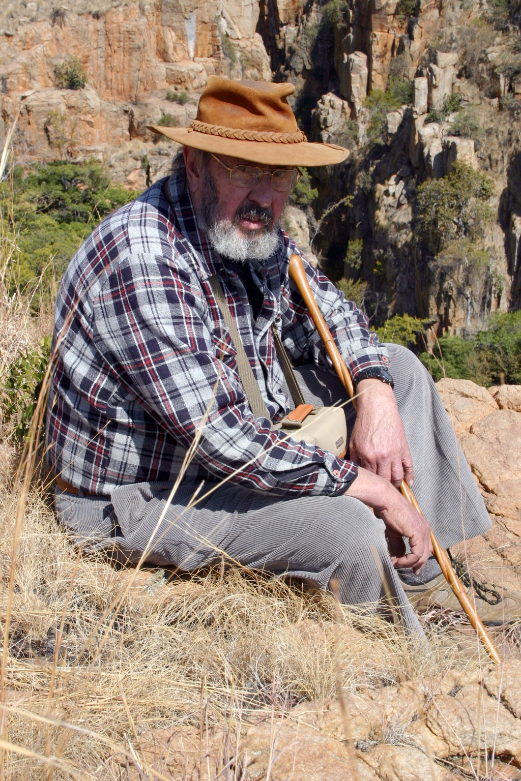 Andre Keyser (1938-2010), South African palaeontologist, discoverer of Paranthropus robustus skull at Drimolen Cave